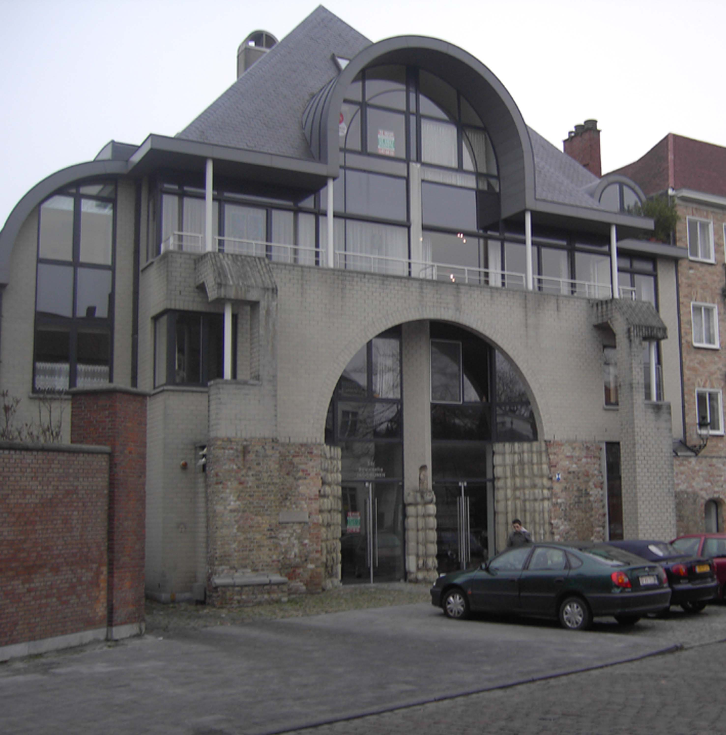 Brugge (Predikherenrei) - the substructure of the entrance of the former churche of the Dominicans; now an apartment building